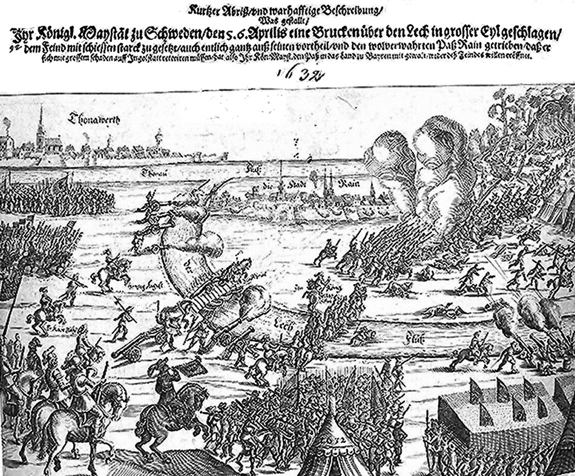 Battlefield view from the east: River Lech flows from right to center, then flows west (up) into Donau river. Town of Rain center top; Donauwörth town top left. Swedish artillery is firing across the river from the south (left), Swedish cavalry is crossing it bottom center. On the other side of the river the Imperial army is retreating north (right) amidst clouds of smoke from the artillery barrage.